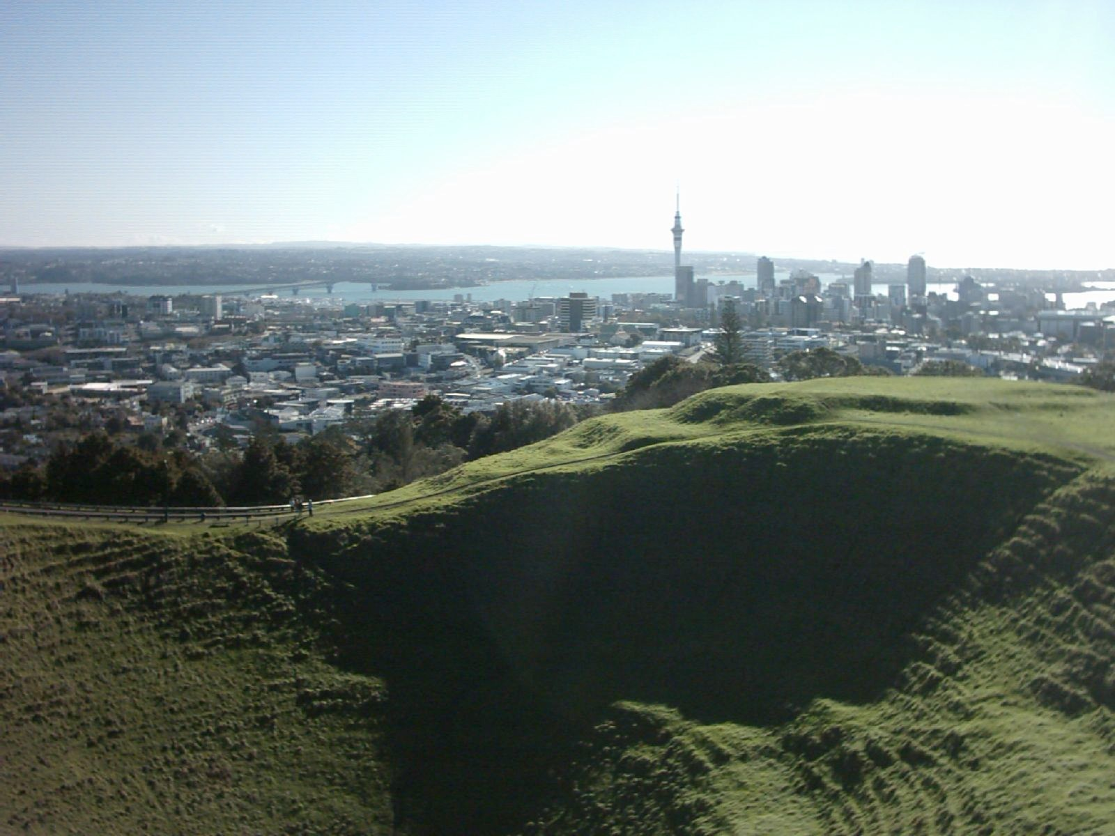 View into the Mount Eden crater and over the Auckland CBD, Auckland City, New Zealand.